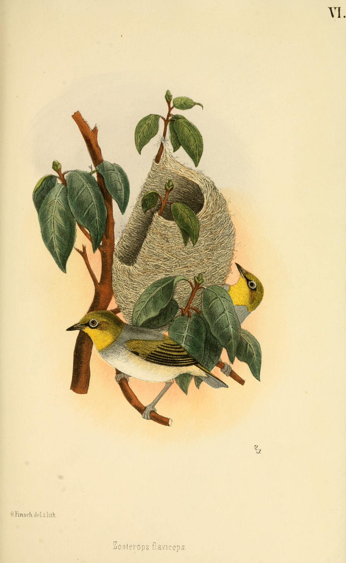 Hartlaub and Finsch Beitrag zur fauna Centralpolynesiens. Ornithologie der Viti, Samoa und Tongainseln Plate 6 Tafel VI. Zosterops flaviceps (Bremen Mus.) Valid name Zosterops lateralis flaviceps Peale, 1848